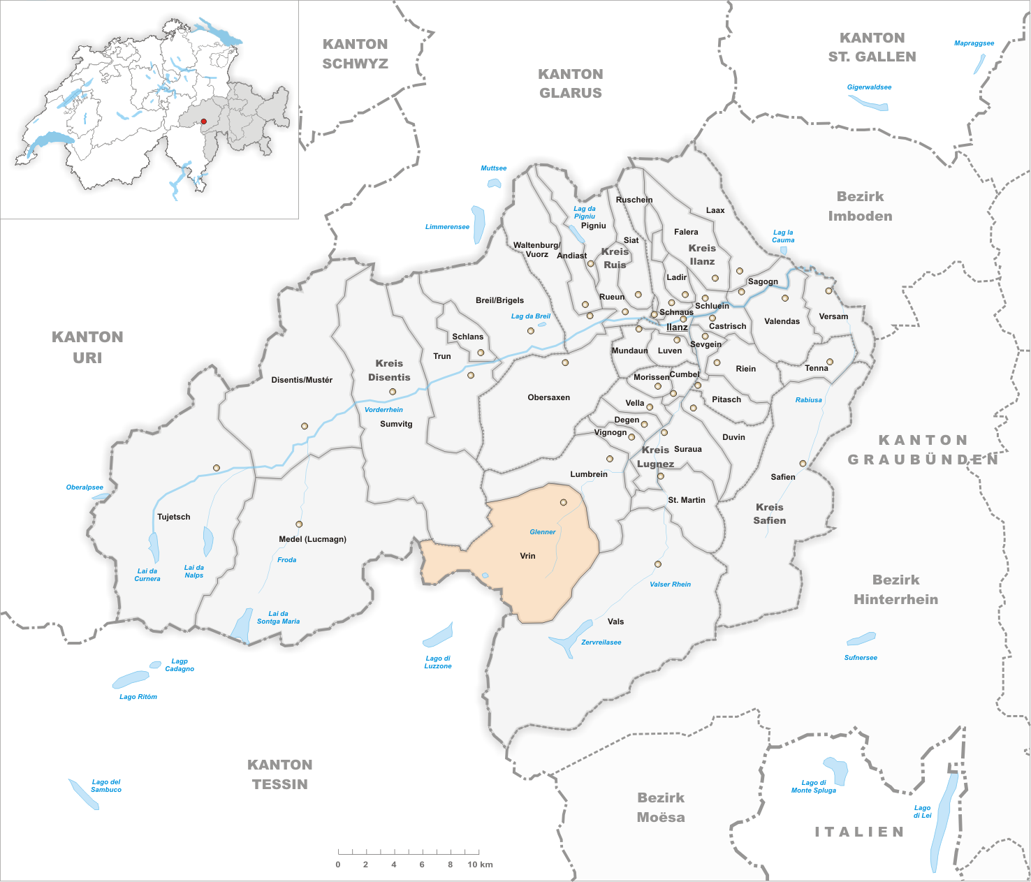 Municipality Vrin